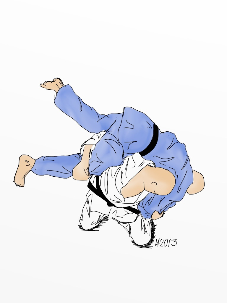 Illustration of the judo throw kata-guruma, or shoulder-wheel, from the knees.